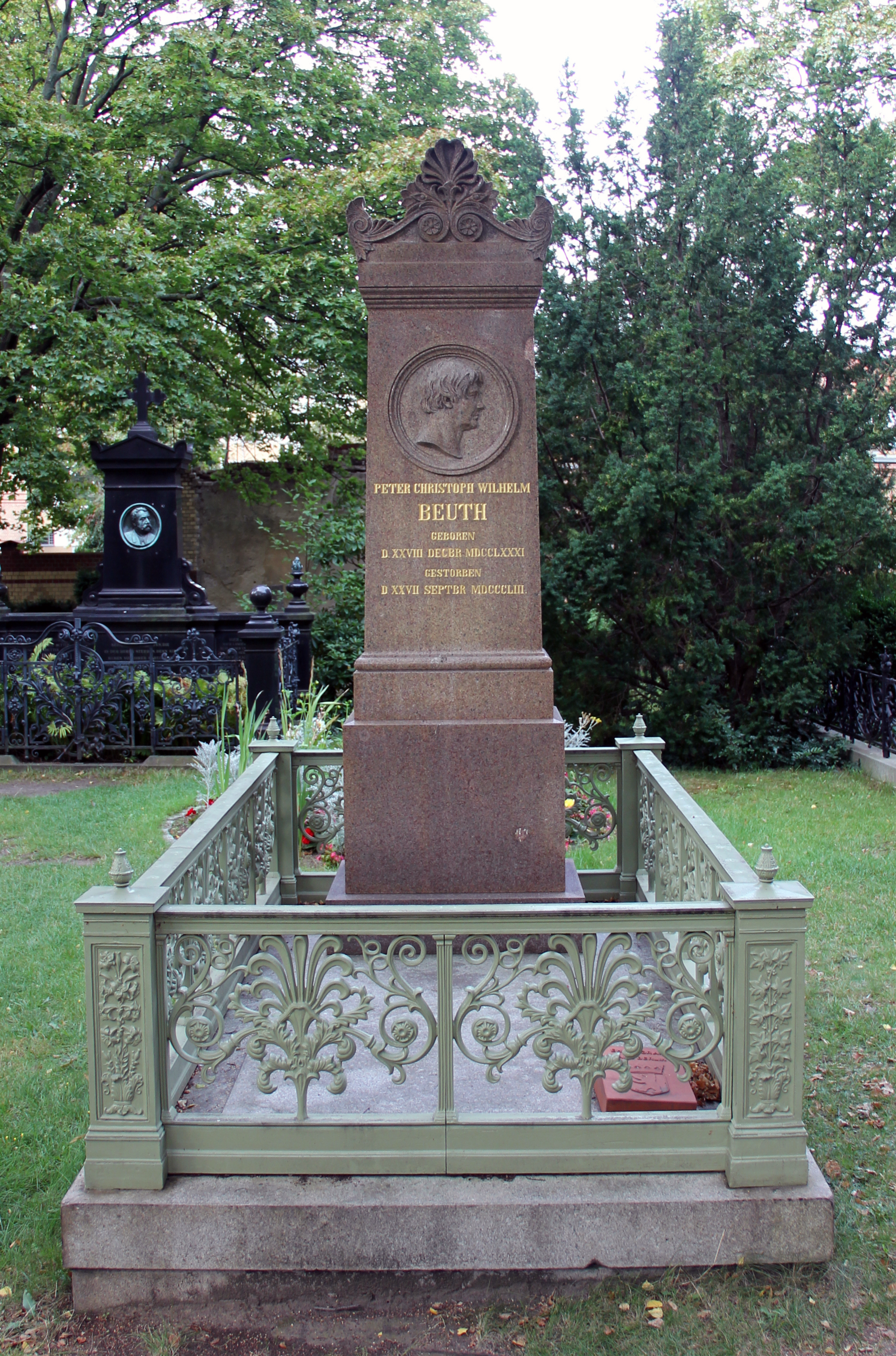 Grave of honor, Peter Beuth, Chausseestraße 126, Berlin-Mitte, Germany